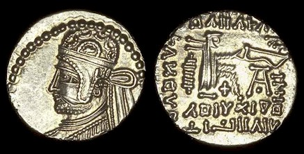 Coin of Parthamaspates of Parthia. Reverse shows a seated archer holding a bow, surrounded by meaningless Greek-like letterforms.